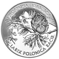 Coin of Ukraine, showing Larix decidua subsp. polonica